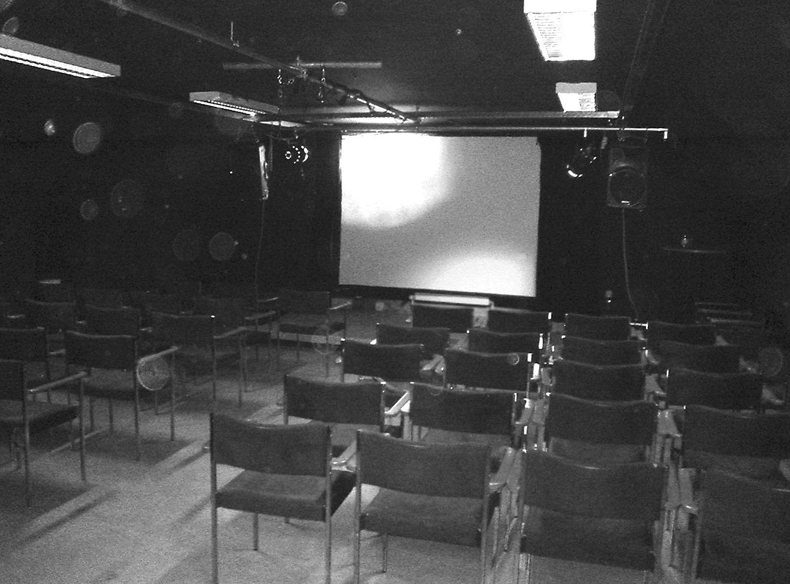 Cinema hall in the independent cultural centre KAPU in Linz, Upper Austria, Austria